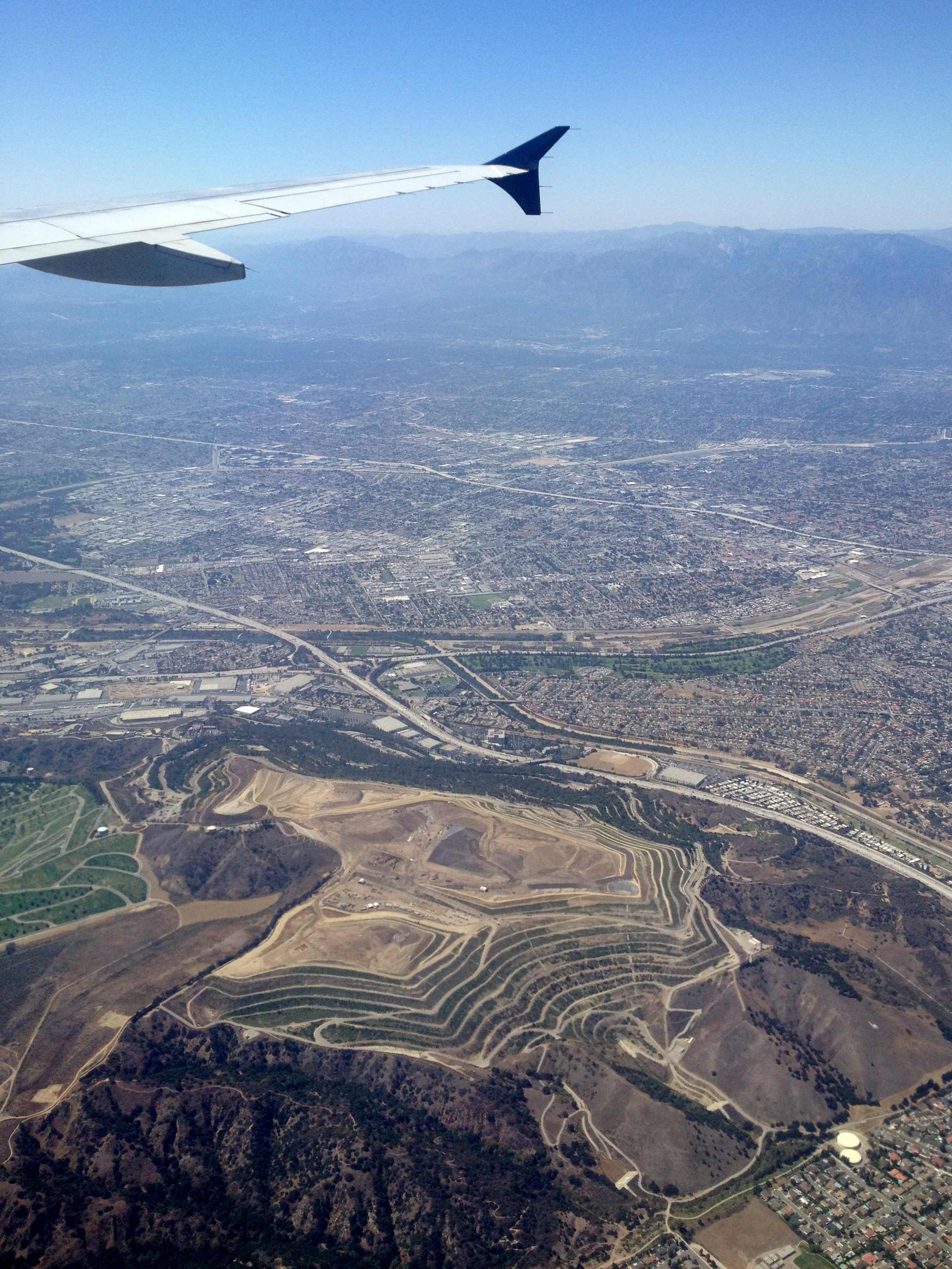 Aerial photo of the Puente Hill Landfill — in the Puente Hills of eastern Los Angeles County, California. The largest landfill in the United States.